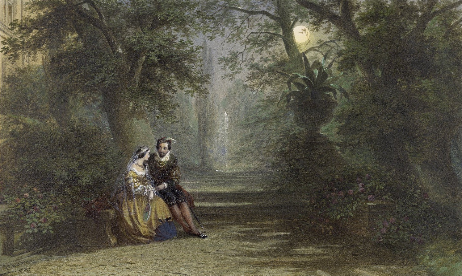 Scene from The Merchant of Venice, Act 5, Scene 1. Jessica and Lorenzo stroll in the moonlit gardens of Belmont.